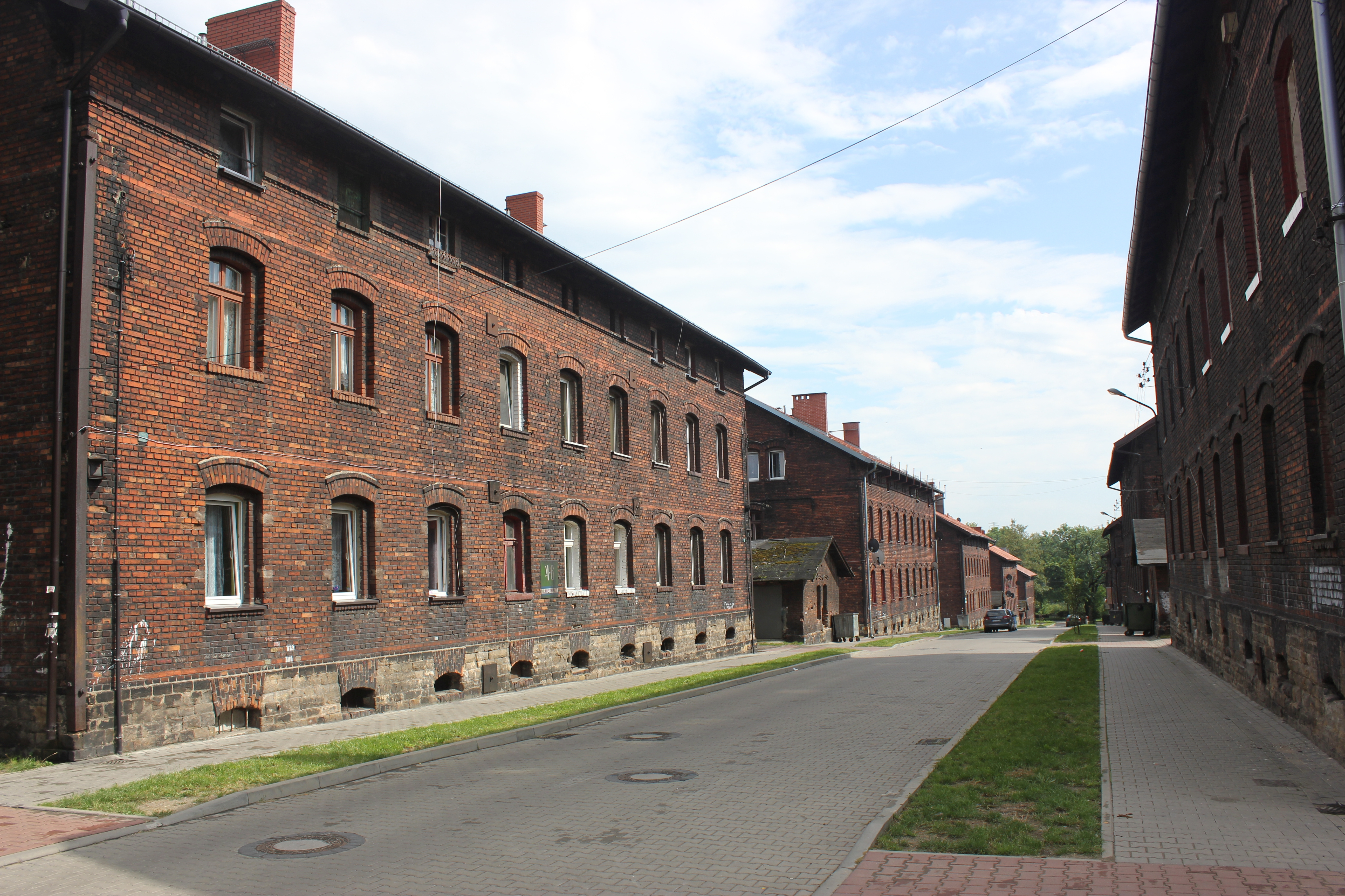 Zabrze - Władysława IV str.